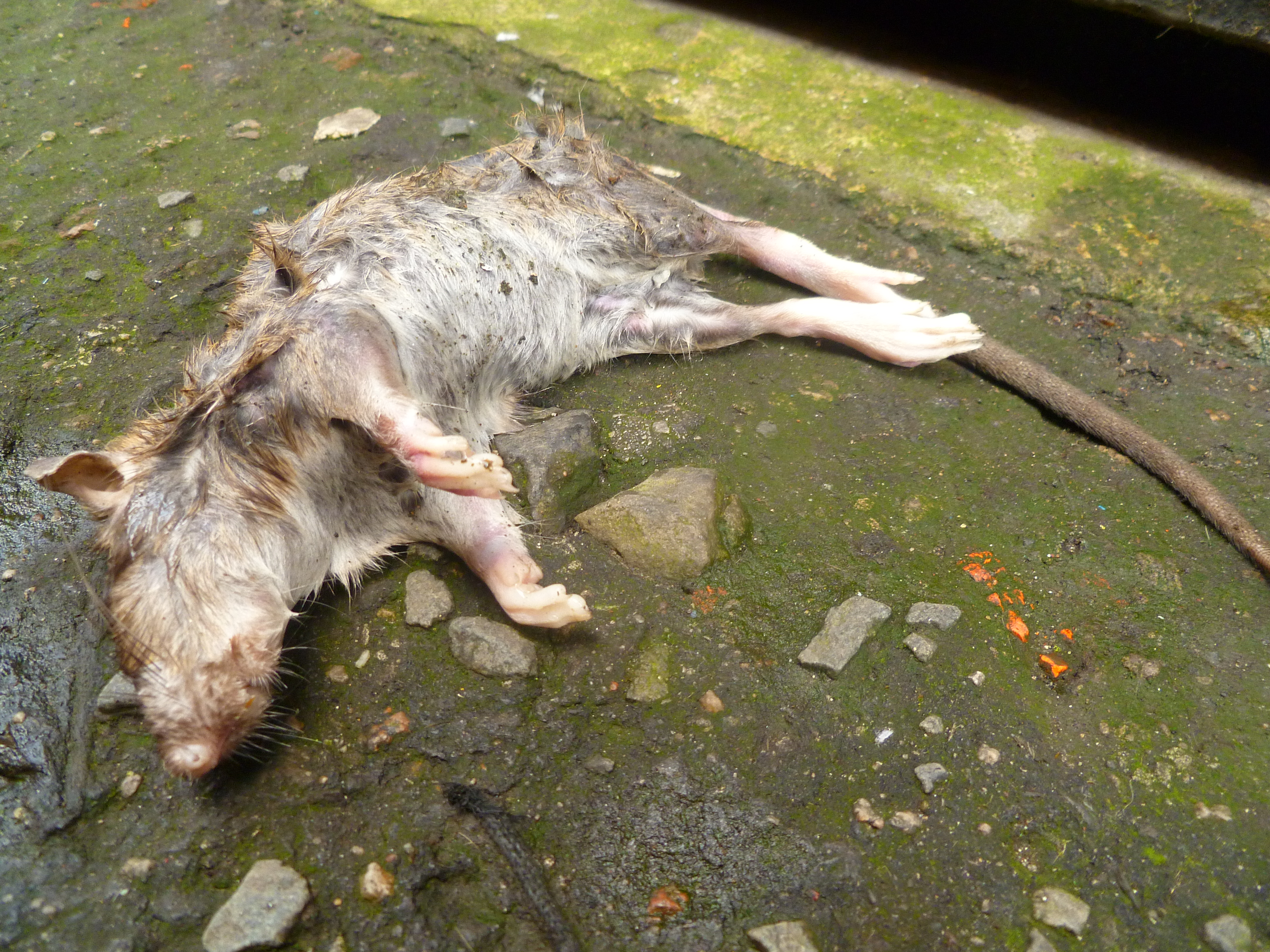 A dead rat in an alley in Manchester city centre.